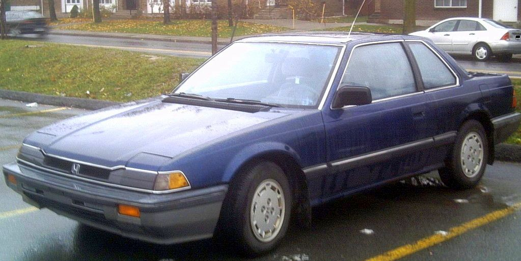 1983-1987 Honda Prelude photographed in Montreal, Quebec, Canada.